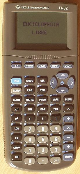 Graphing calculator